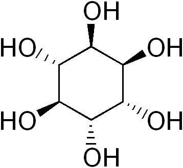 chemical structure of D-chiro-inositol